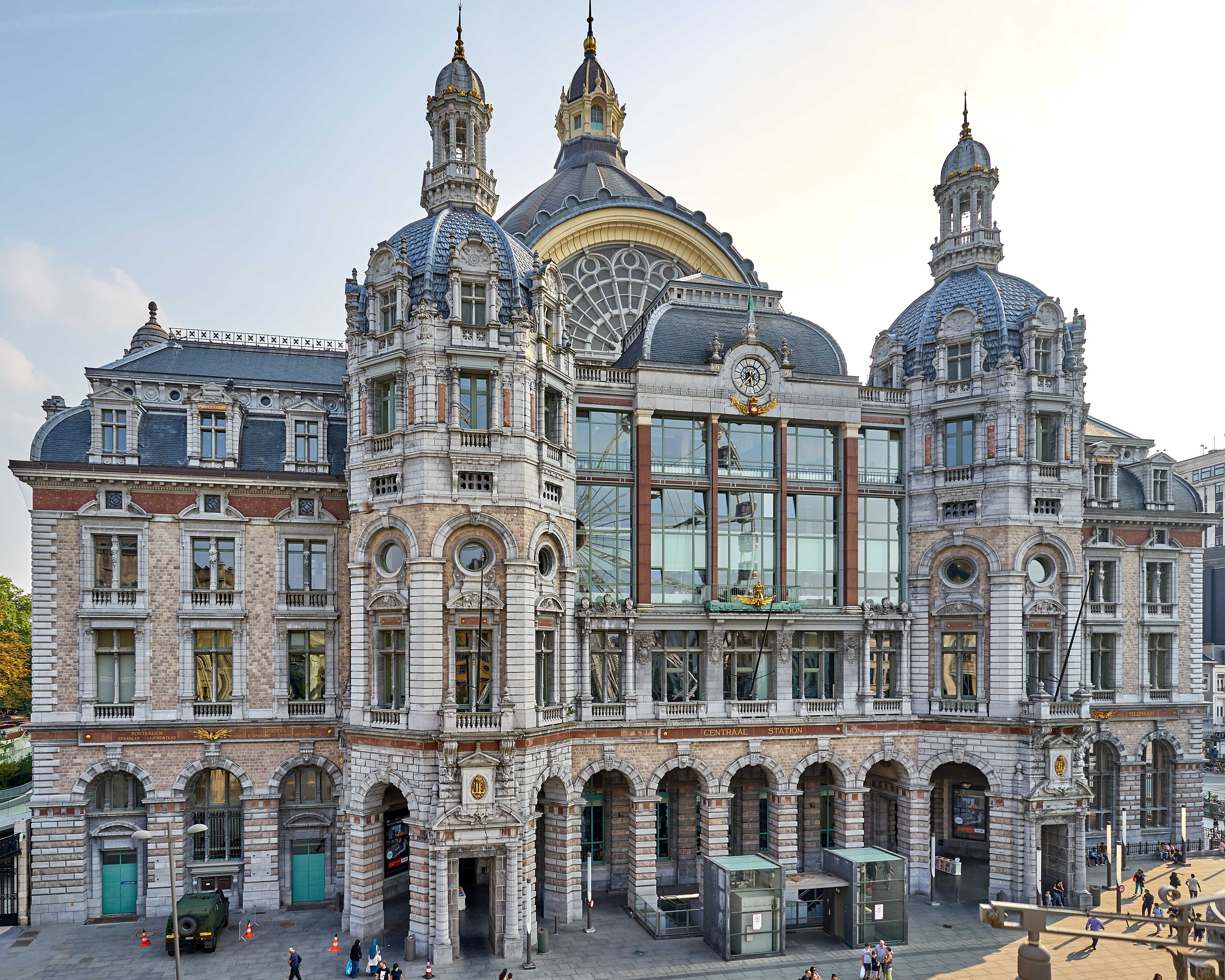 Frontal view of Antwerpen-Centraal railway station taken from a temporary ferris wheel right in front of the main entrances